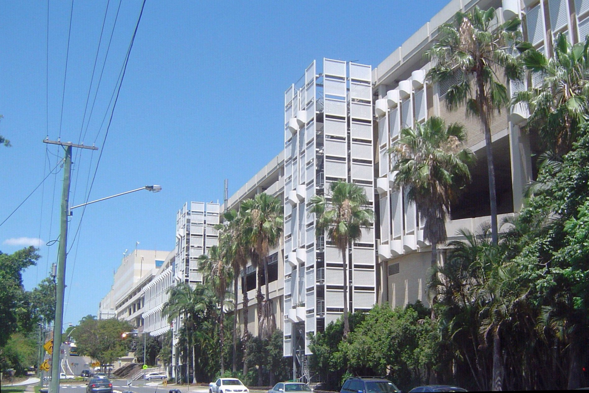 Outside photo from park on east side of Indooroopilly Shopping Centre